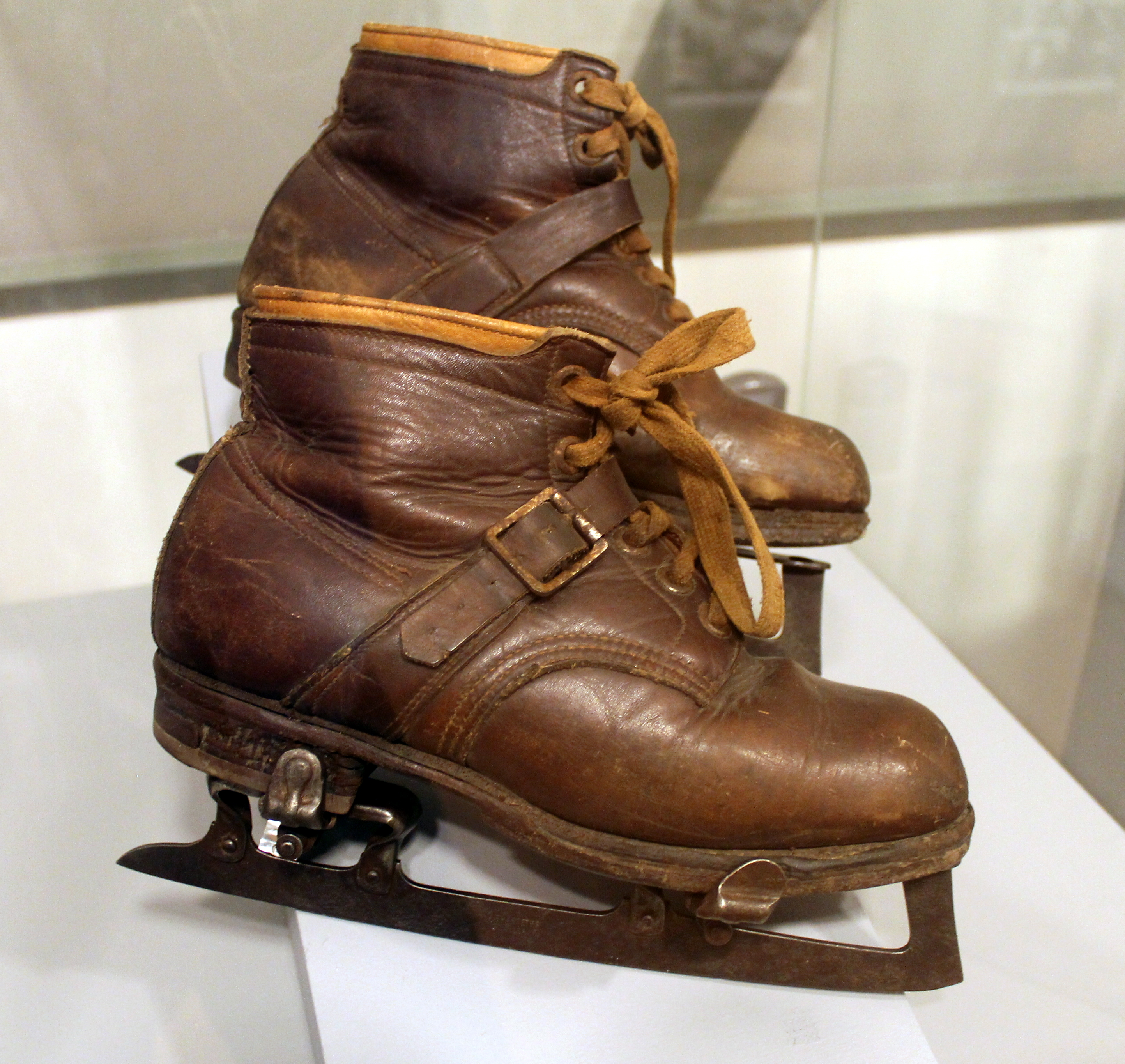 Skates / Ice skating shoes